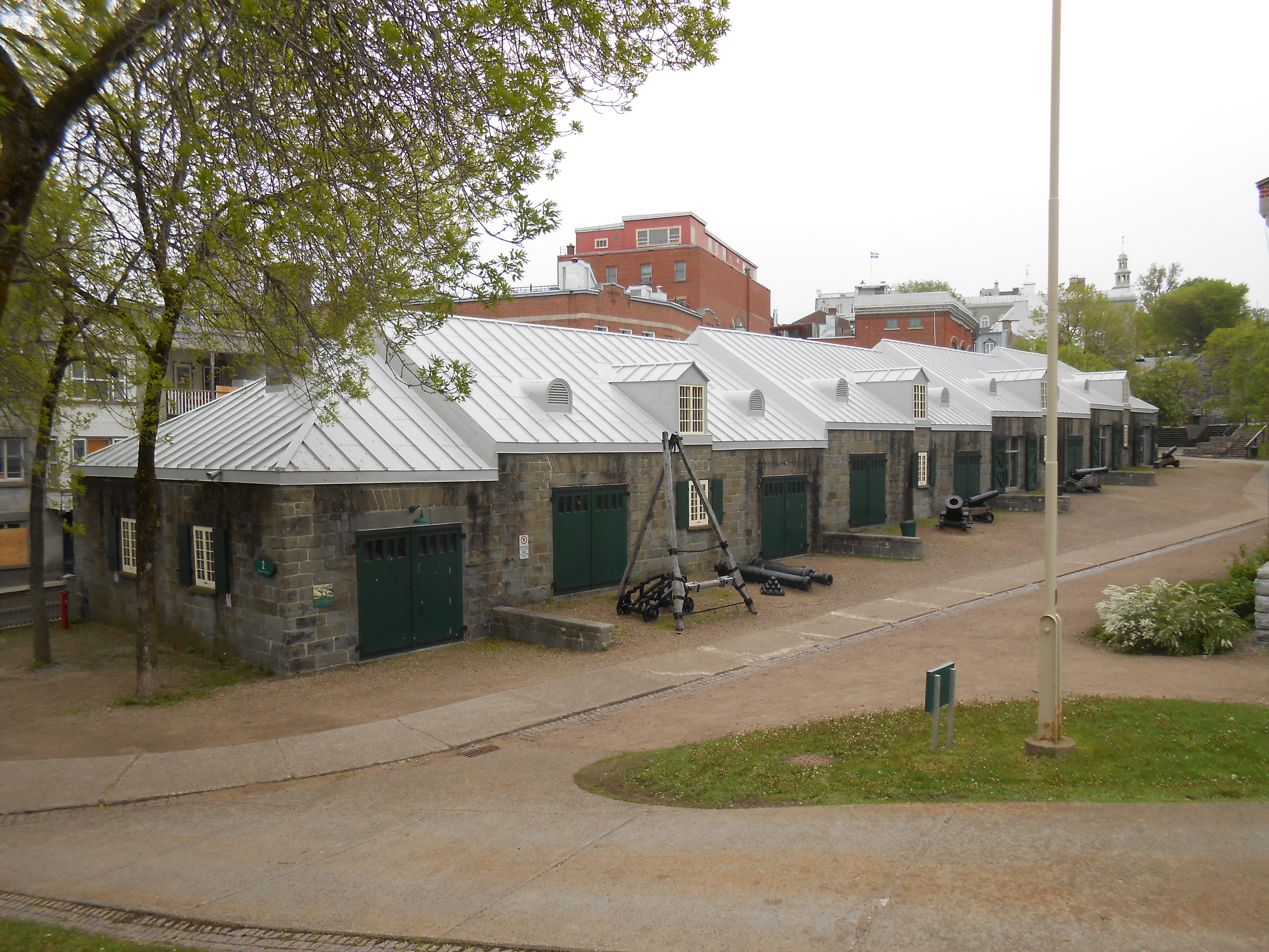 The Gun Carriage Store, also known as Building 20, is located in Historic Old Québec’s Artillery Park, in the gorge of the St. John Bastion, bordering Rue d’Auteuil. The hangar is a stone building composed of four 14.9 meters (49-foot) sections each with five double doors and a dormer in its centre, and a final 4.8 meters (16-foot) section. The building follows the natural slope of the land and has a stepped profile.